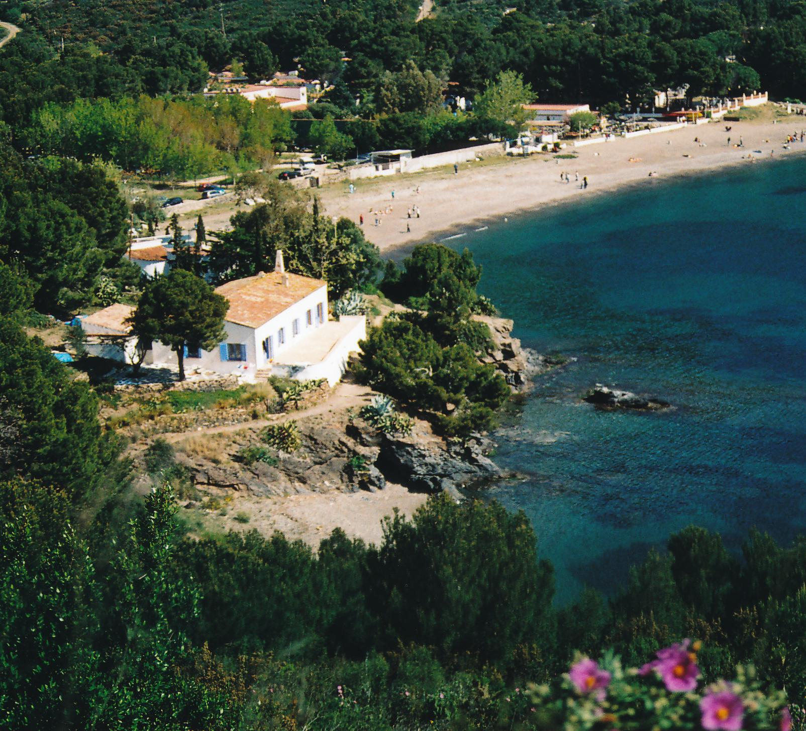 Cala Montjoi, Roses. In the foreground, the "Casa del General", next to El Bulli a Michelin 3-star restaurant run by chef Ferran Adrià